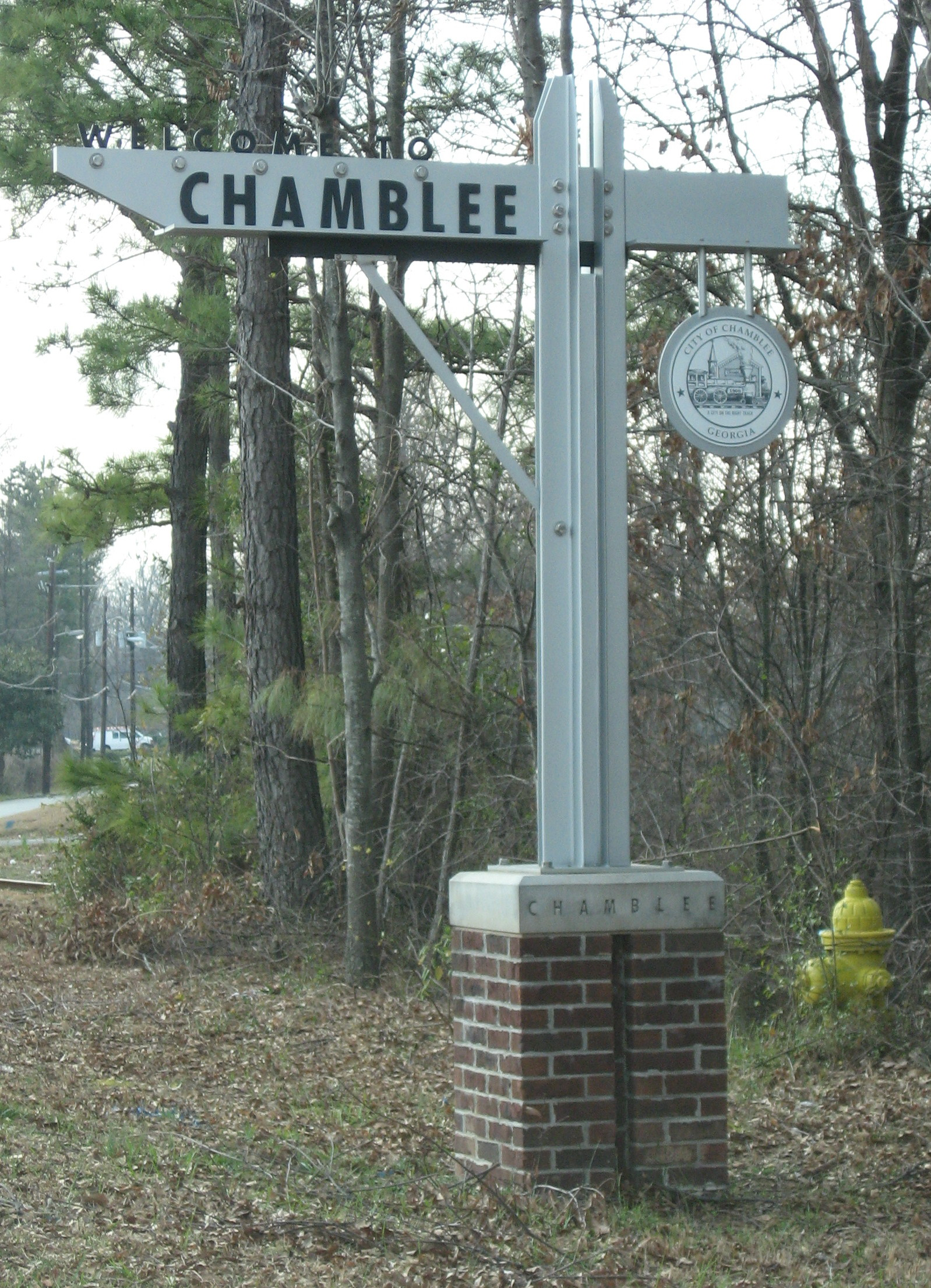 self-taken image of a welcome to Chamblee, GA sign